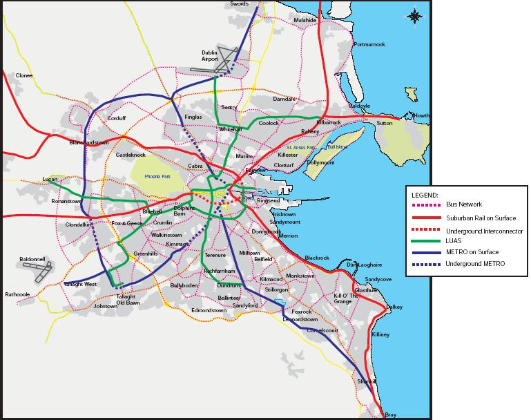 This is the full map of the Platform For Change scheme published by the Dublin Transportation Office ( abolished 2009) in November 2001